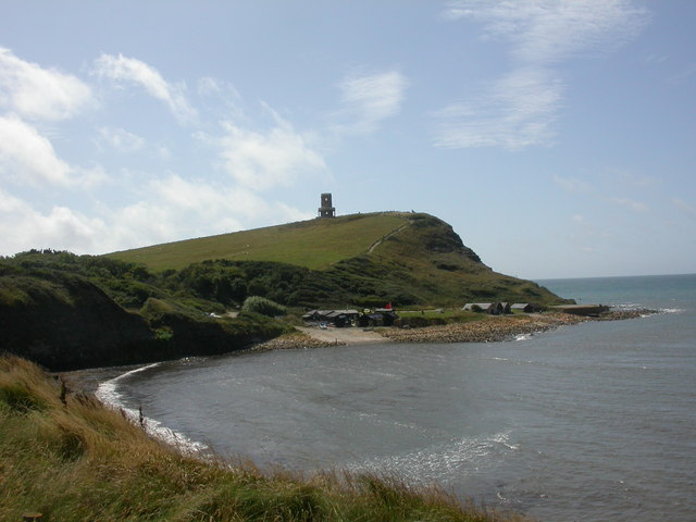 Kimmeridge Bay The eastern end of the bay, as seen from the coastal footpath; interpretation centre and range warden (with red flag flying) at beach level, and Clavell Tower on the top of the hill.